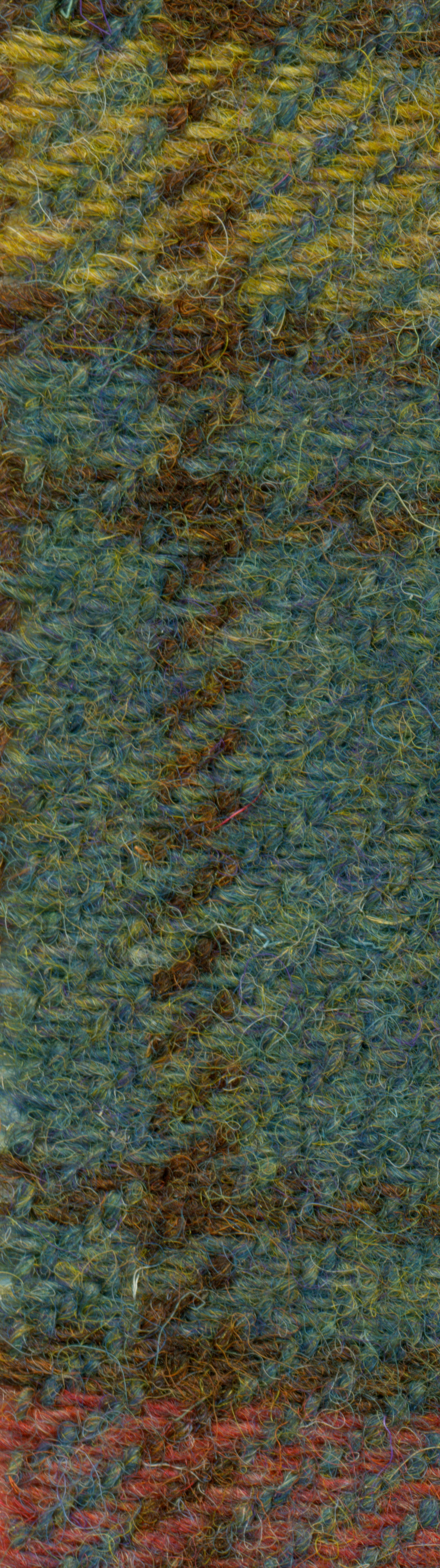 2D-scan of a cloth sample of Harris Tweed (checks). Handwoven woolen cloth from the Outer Hebrides.